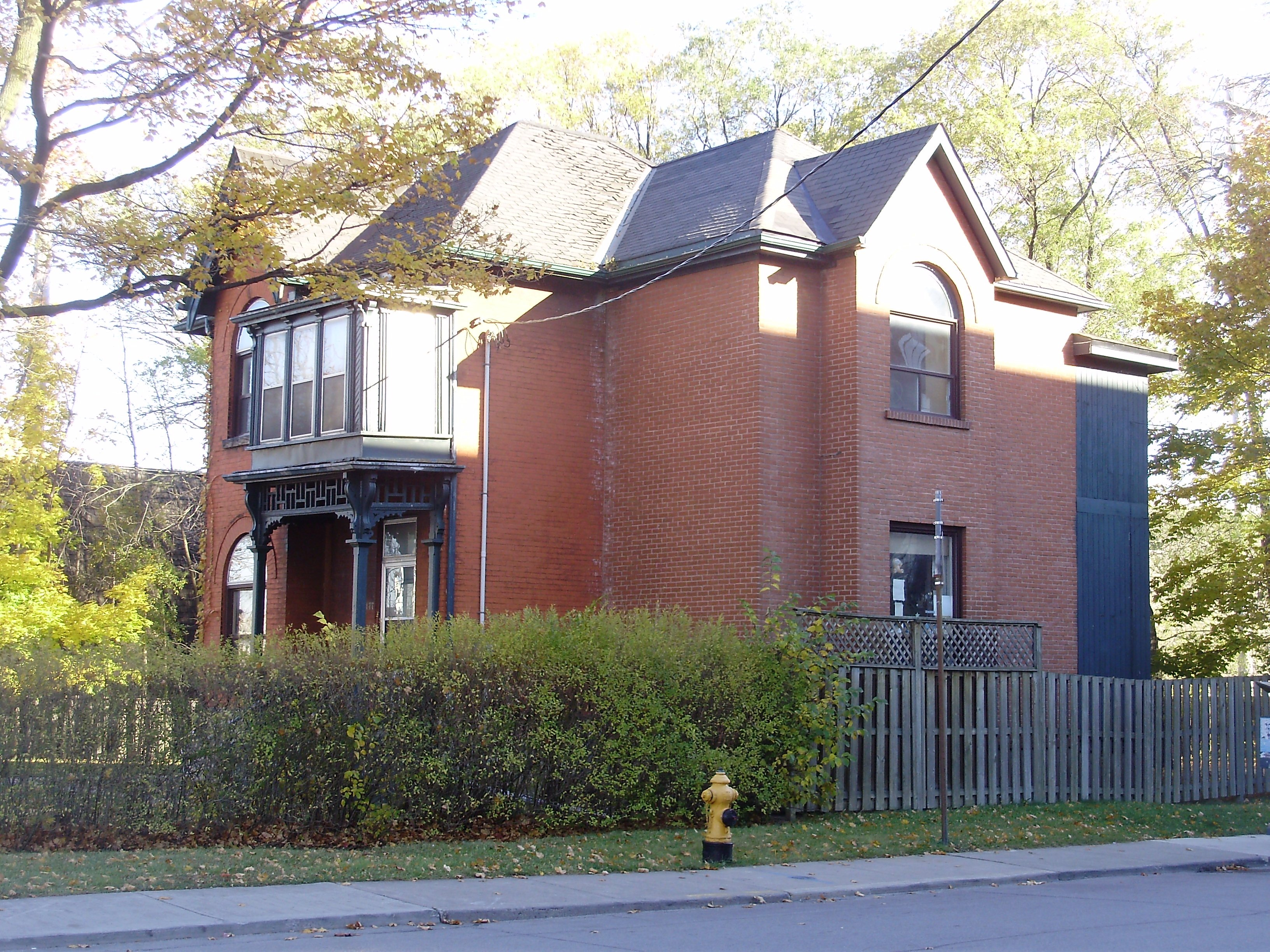 This house, located at the intersection of King Street West and Fraser Avenue, formerly housed the superintendent of the Andrew Mercer Reformatory for Women in Toronto, Ontario, Canada, a former women's prison closed and demolished in 1969.